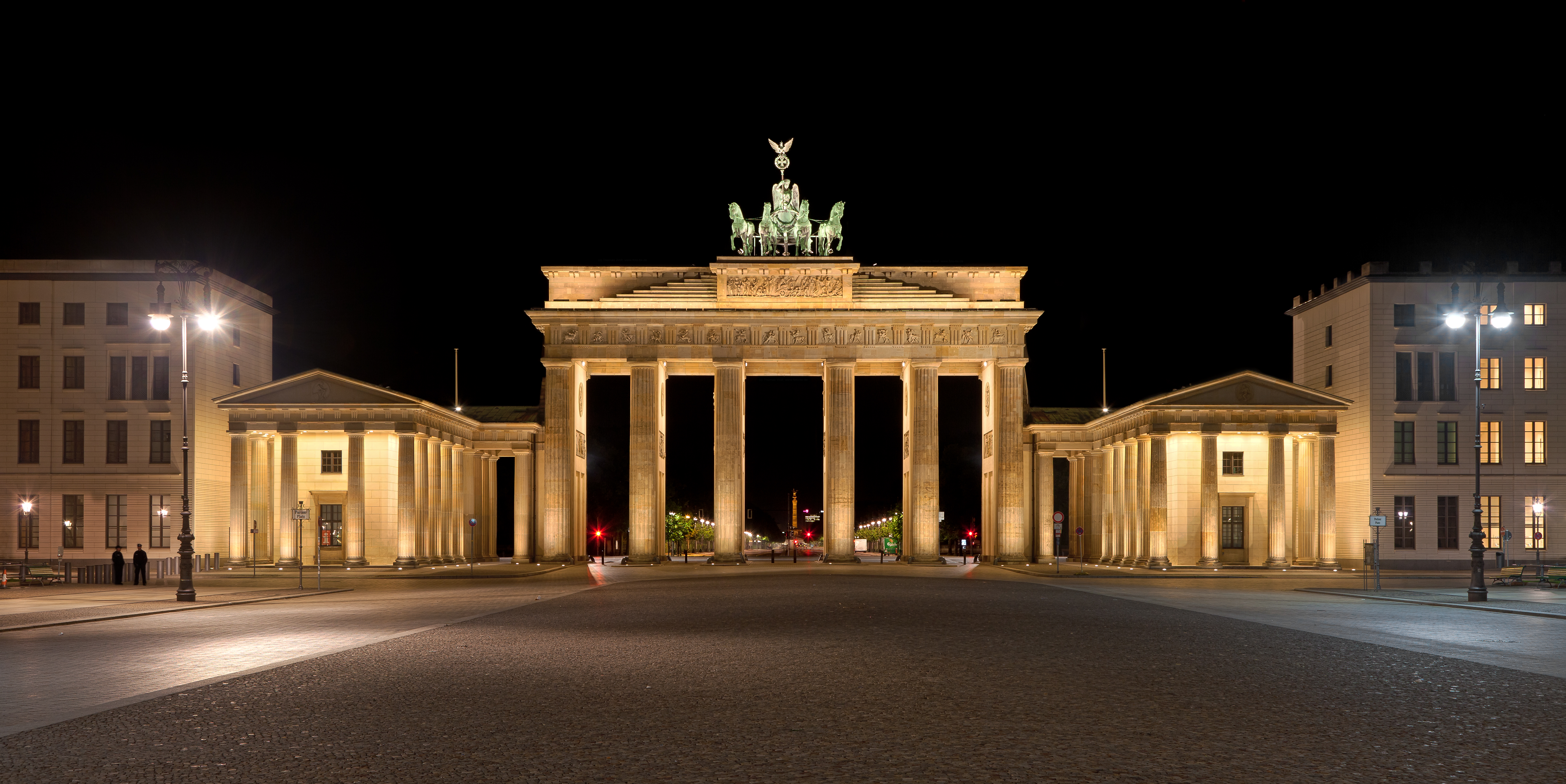 The Brandenburg Gate in Berlin, Germany